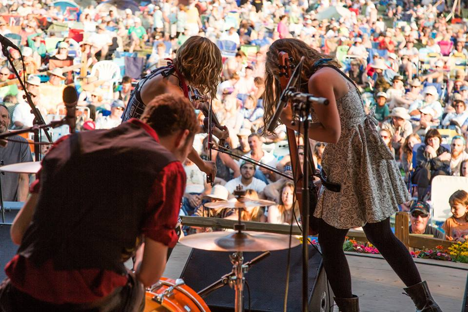 The Accidentals open for Arlo Guthrie on Main Stage at Blissfest in Harbor Springs on July 12th, 2015.